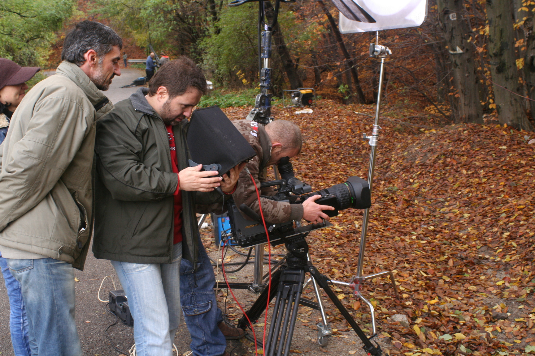 Orfeus Gerçekleri